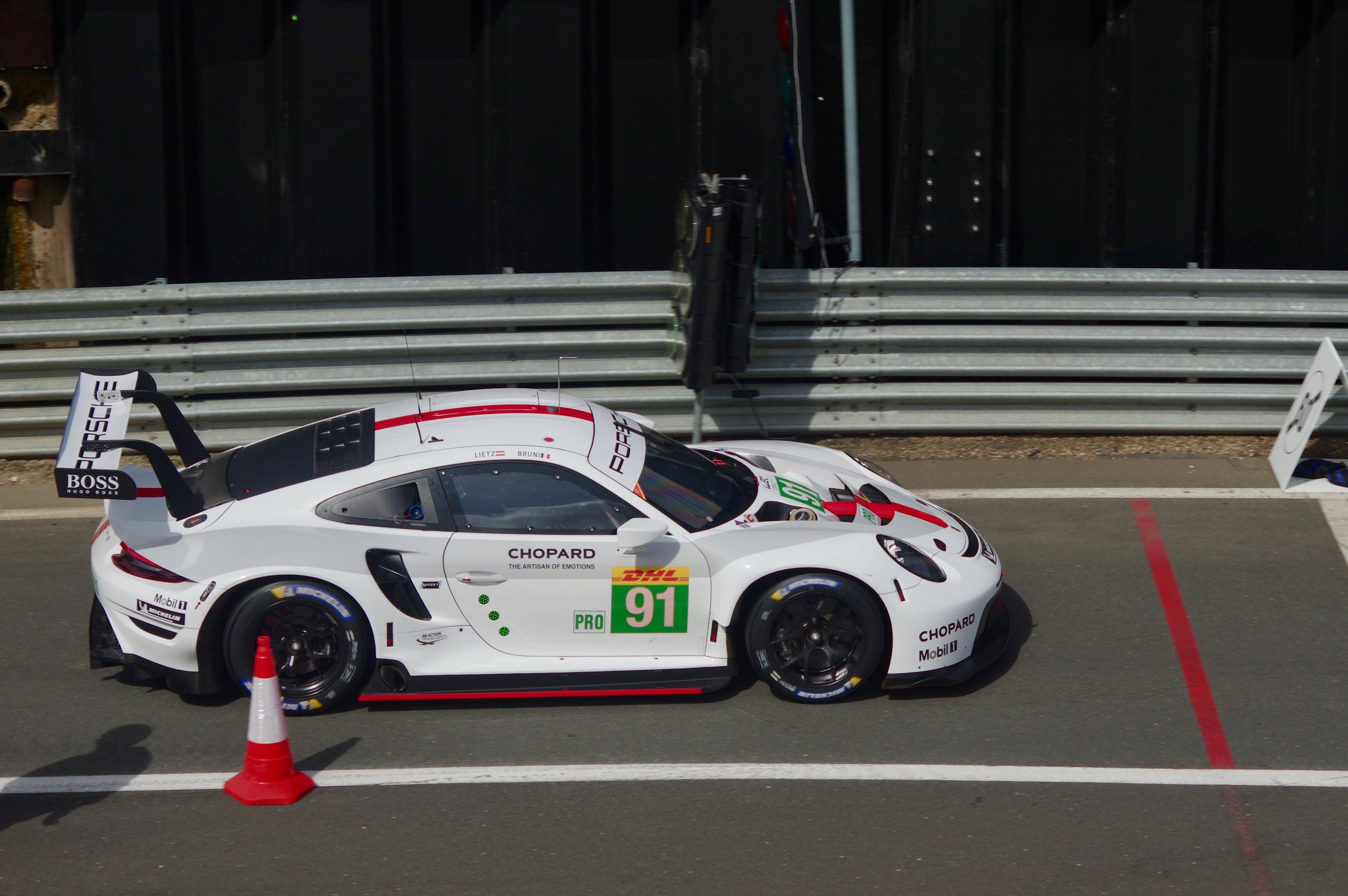 2019 4 Hours of Silverstone 91.